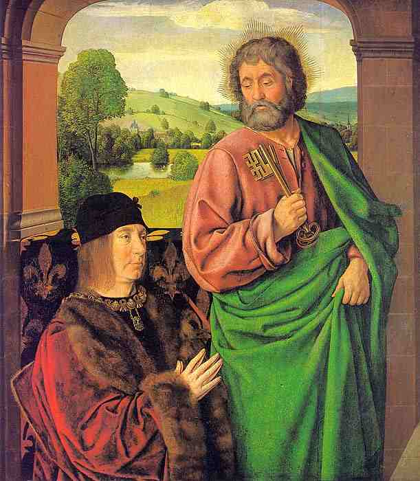 Pierre II, Duke of Bourbon, Presented by St. Peter Wood Mus้e du Louvre, Paris